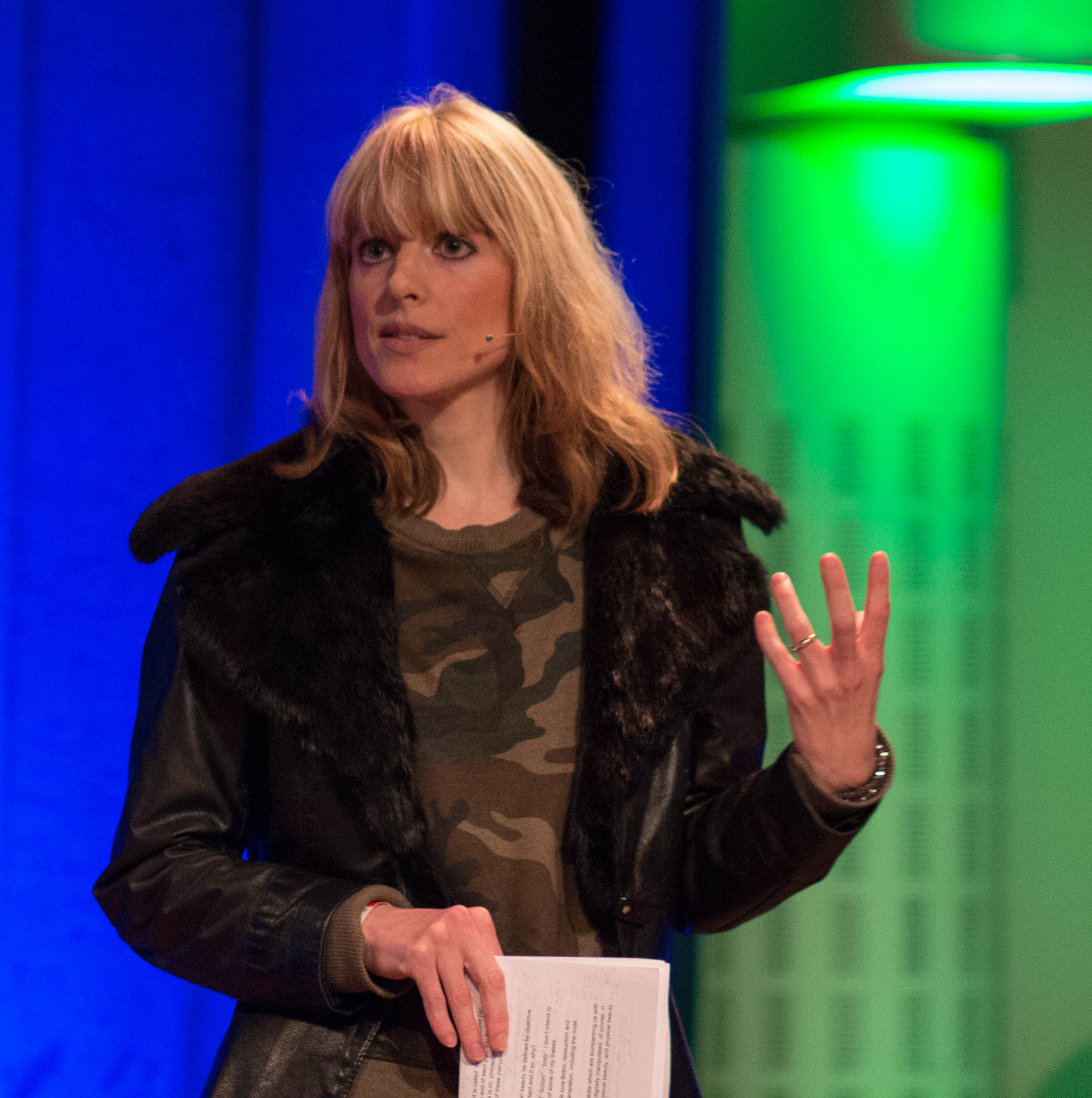 Rebekka Reinhard presenting at Brainwash Festival